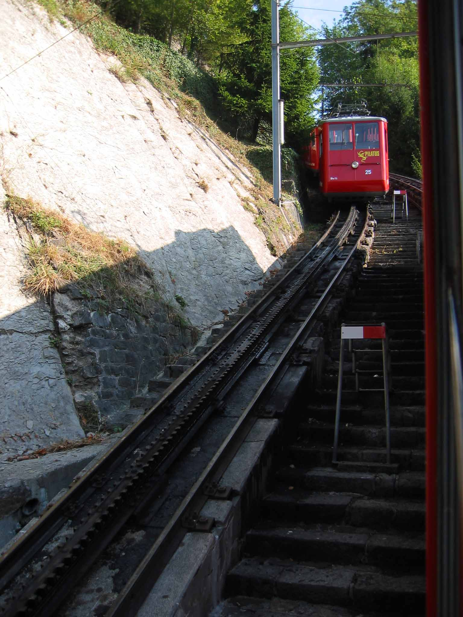 Pilatus cog rail, my creation. Photo taken: August 2003. Mt. Pilatus Railway, Switzerland. Note the Locher type cograil in foreground.